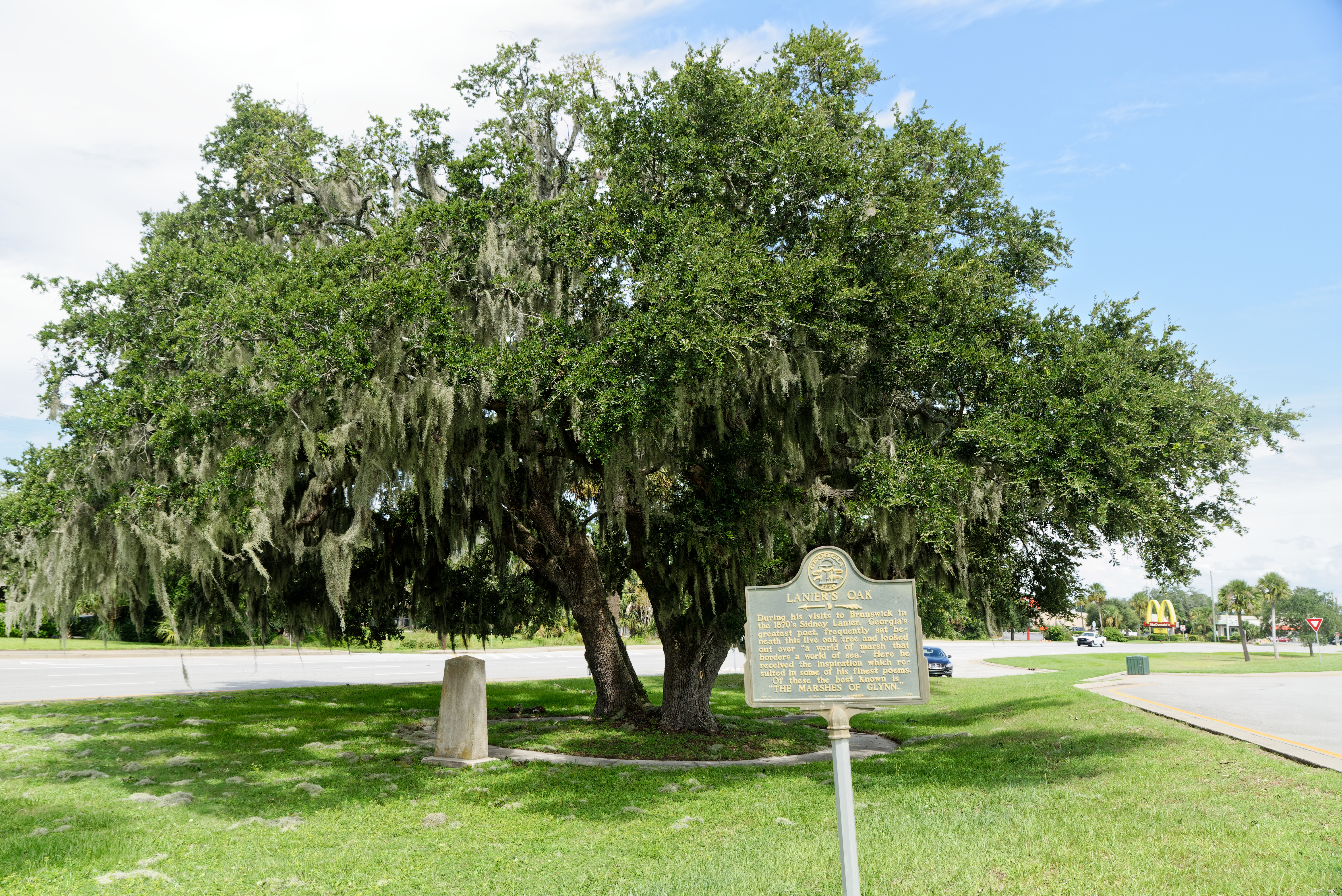 Sidney Lanier reportedly wrote poetry under this tree in Brunswick, Georgia, US.